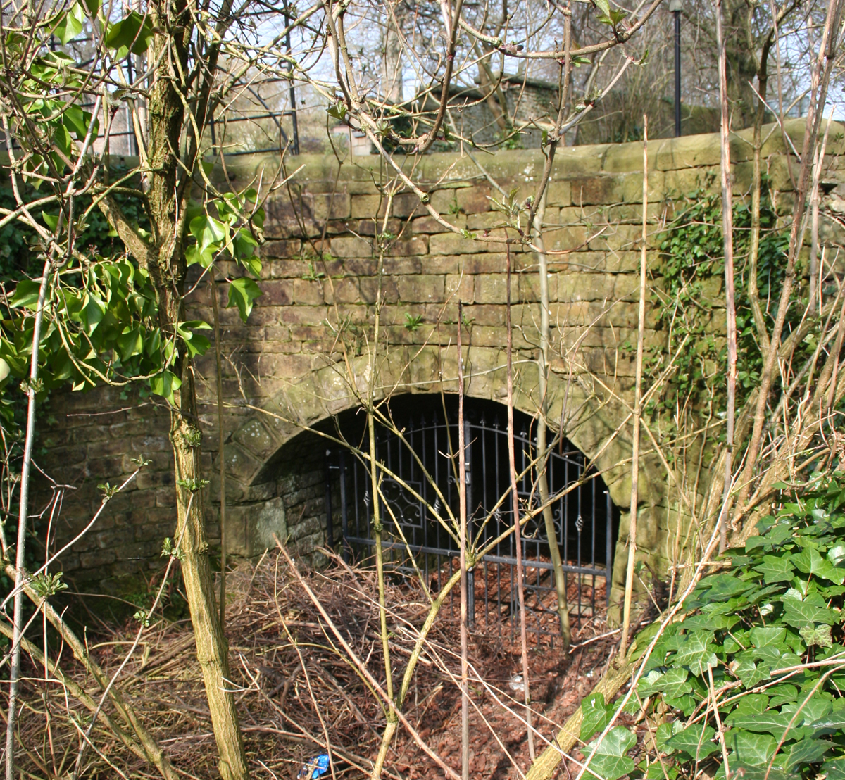 Stodhart Tunnel, Chapel-en-le-Frith, Derbyshire